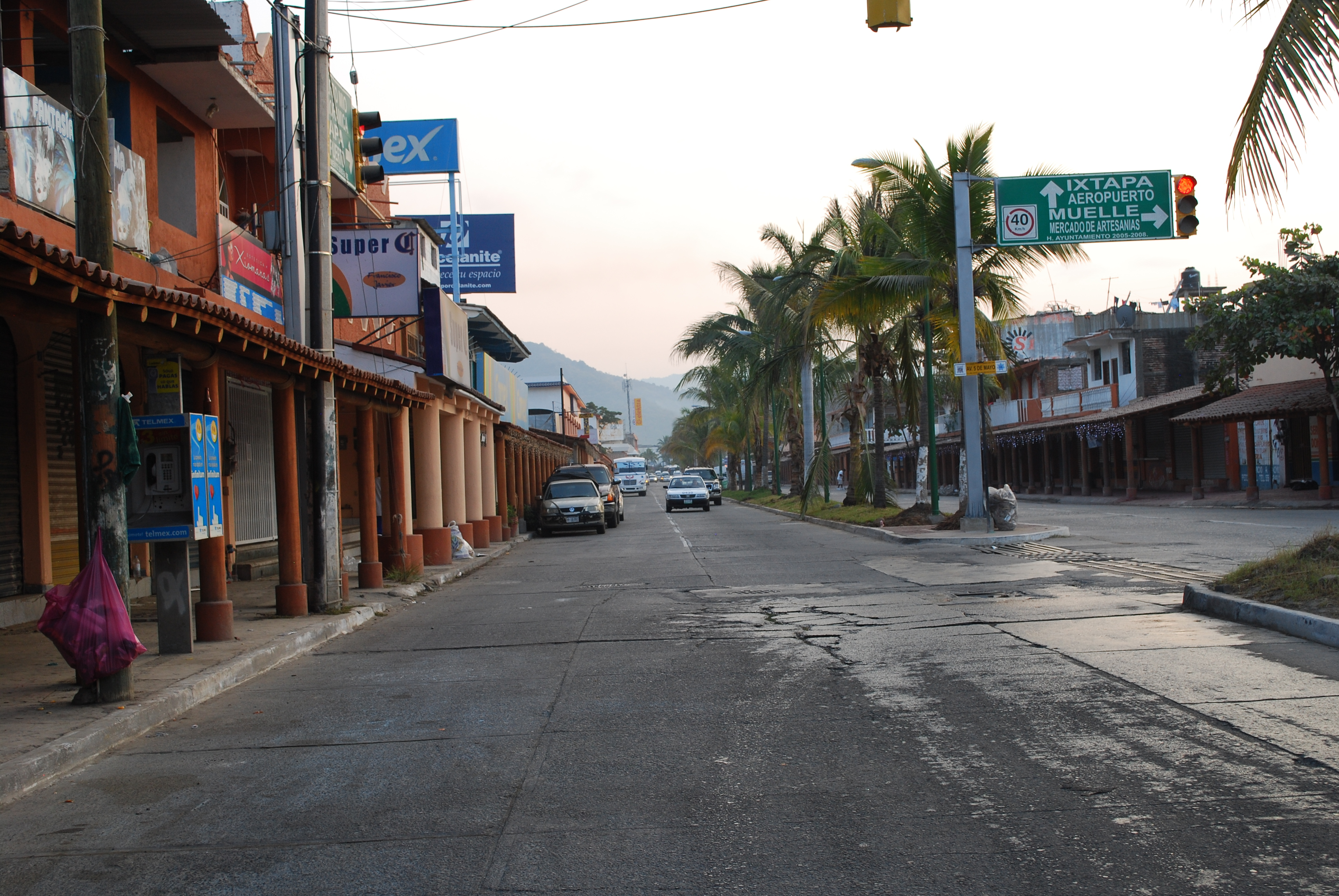 Morelos Street, Zihuatanejo, Mexico